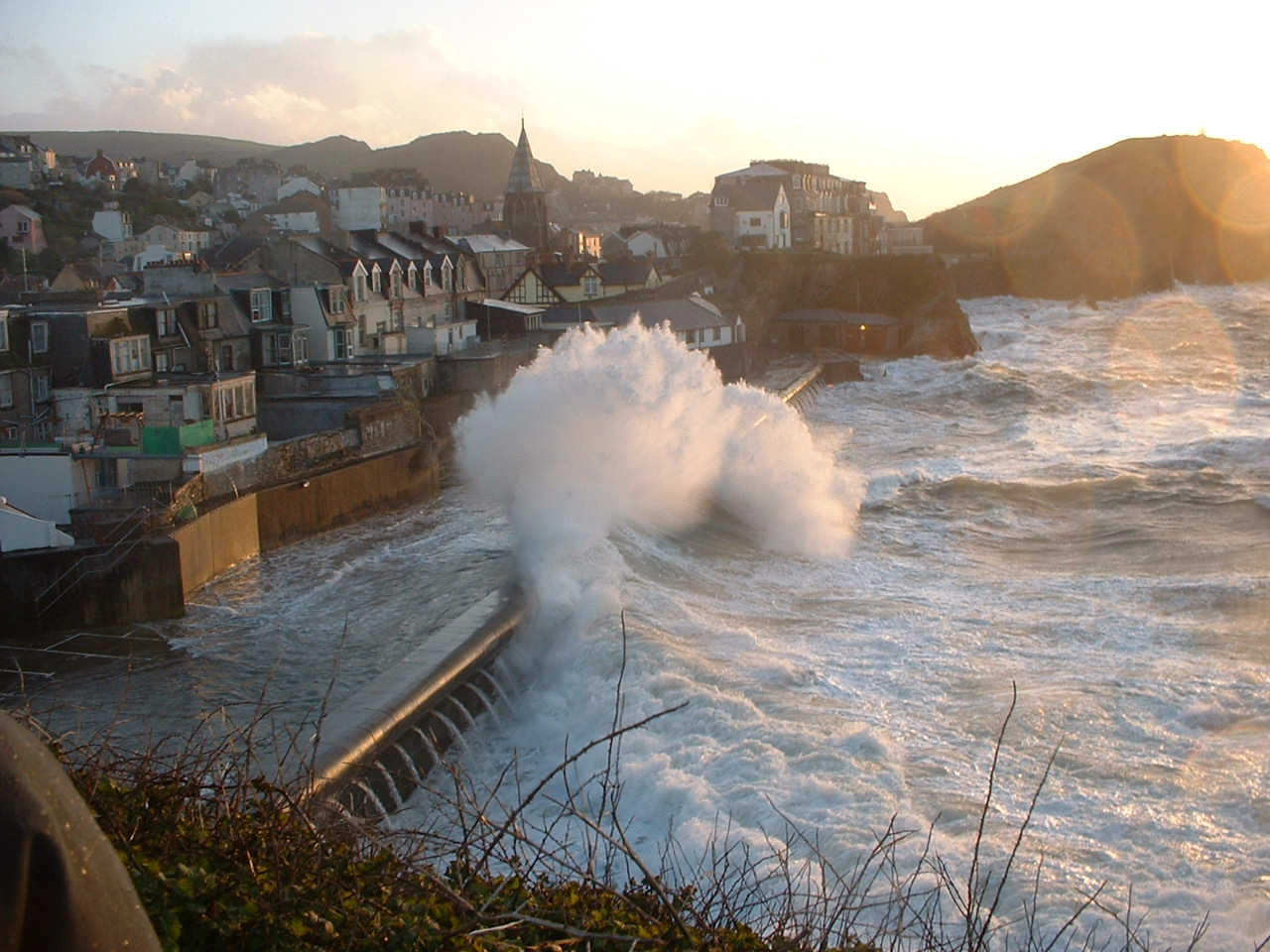 big wave on cheyne beach